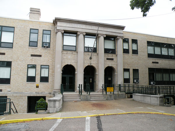 Picture of Ingram Public School located at Marcross Street and Vancouver Avenue in Ingram, Pennsylvania, on July 31, 2010. Built in 1914, architect Press C. Dowler, the school is on the List of Pittsburgh History and Landmarks Foundation Historic Landmarks.